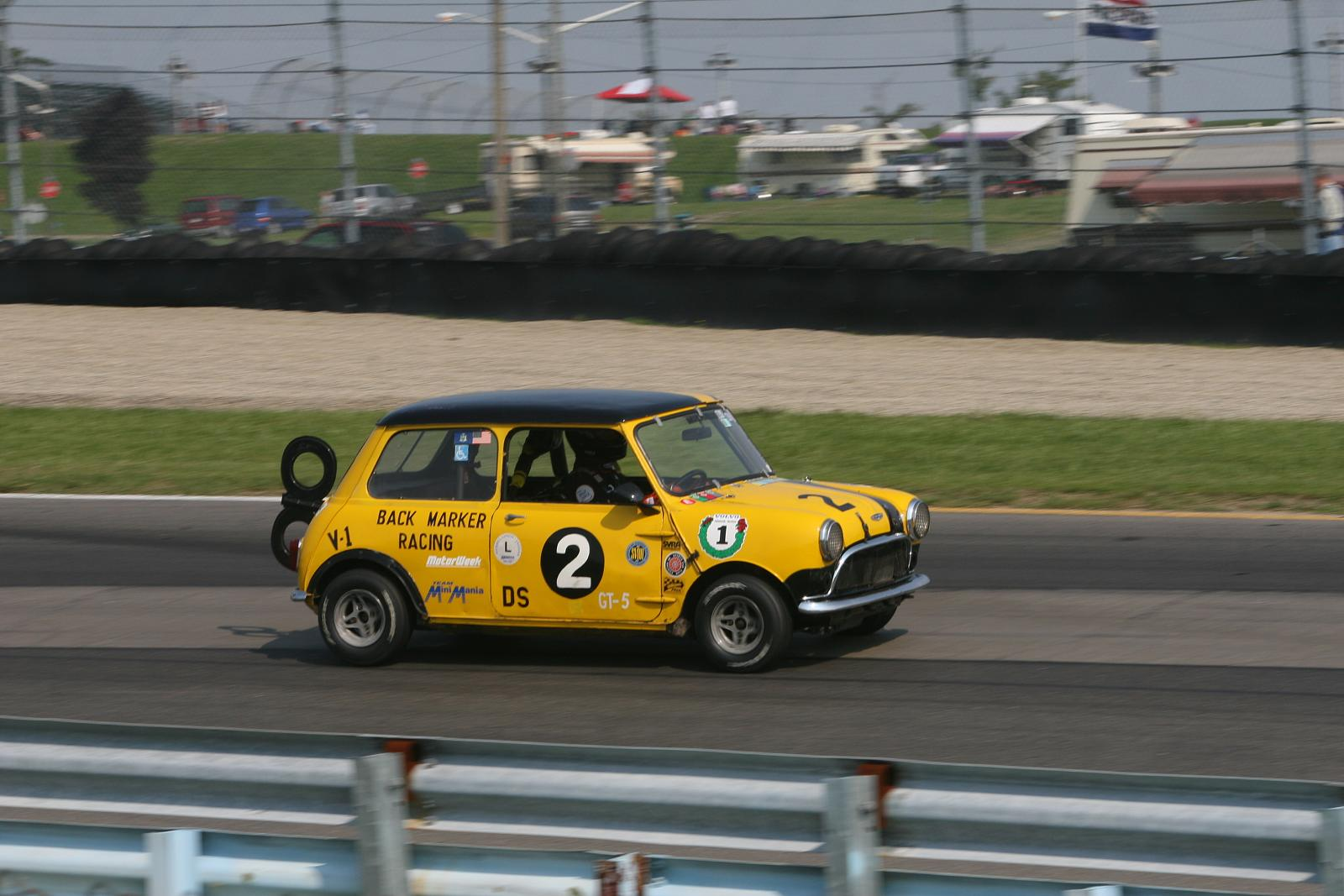 2 - 1962 Austin Cooper (998cc) Driven by Bob Fairbanks of Portville, NY